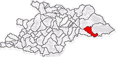 Map of Moisei commune in Maramureş